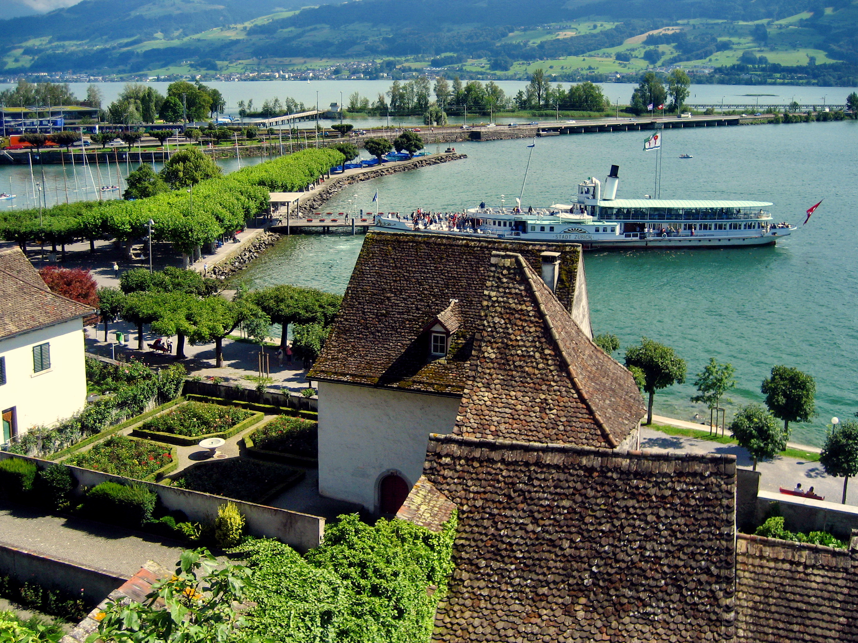 Rapperswil (SG) : Older town and harbour, ZSG's Paddle steamship Stadt Zürich arriving, focus on Einsiedlerhaus and its Rose garden, and in the background Technical University (HSR) to the left, Holzbrücke on am Obersee, and Seedamm, as seen from Lindenhof.